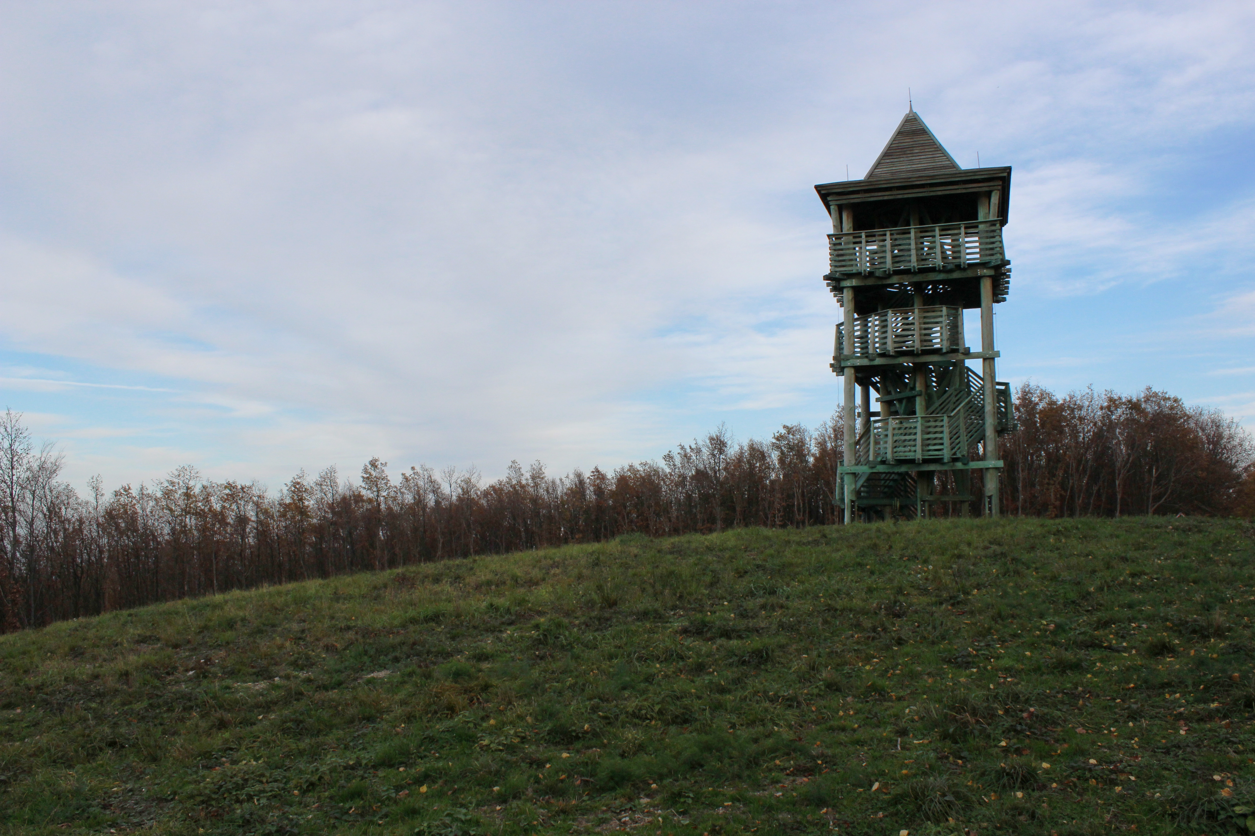 The Magas-bérci Lookout Tower (Sopron, Hungary), built in 2005.